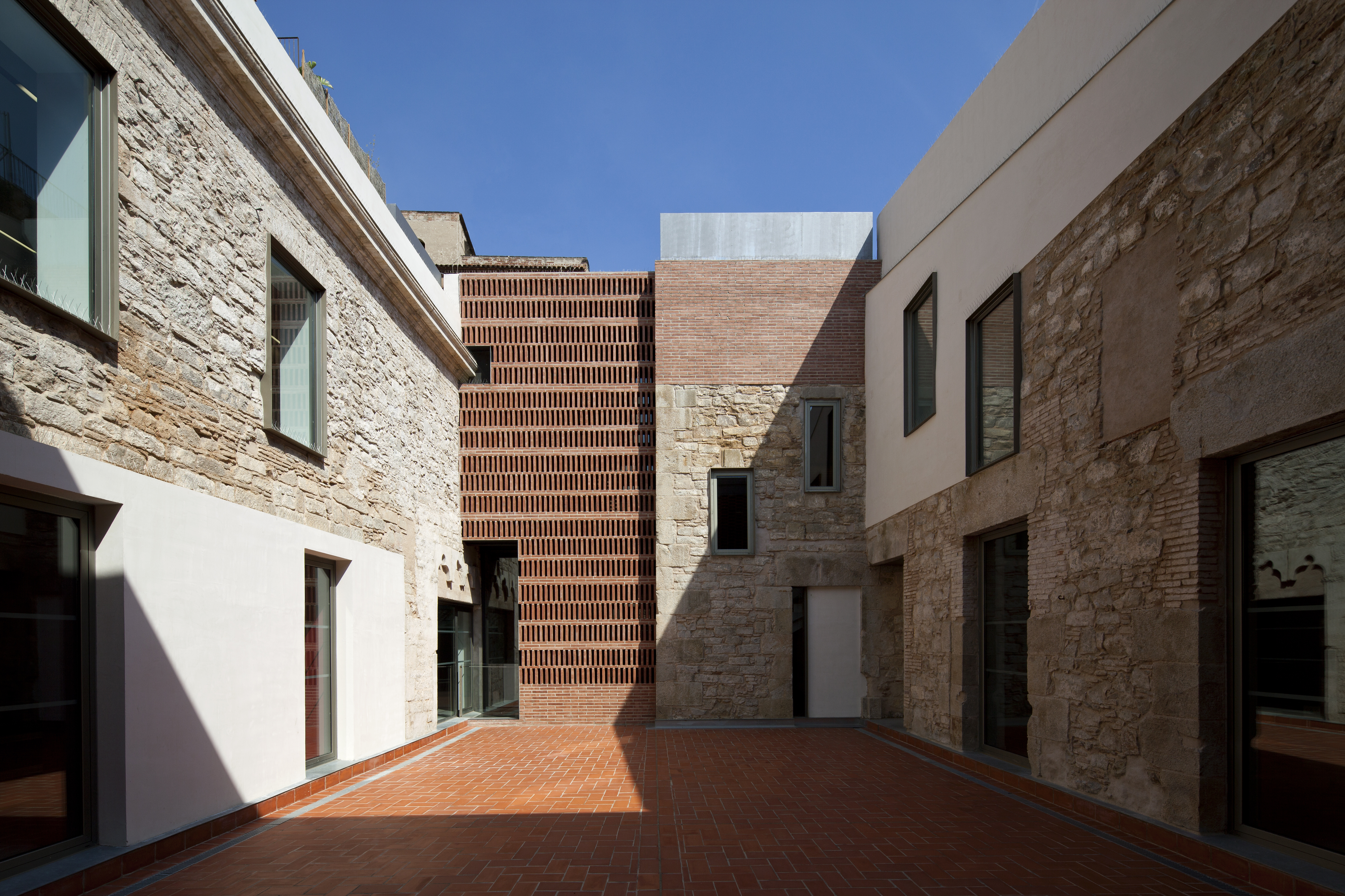 Interior Quad of the first part of 'La Seca'